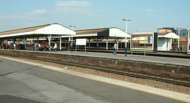 Vauxhall railway station - London - England - 240404 Photo taken by Tagishsimon on the 24th April 2004